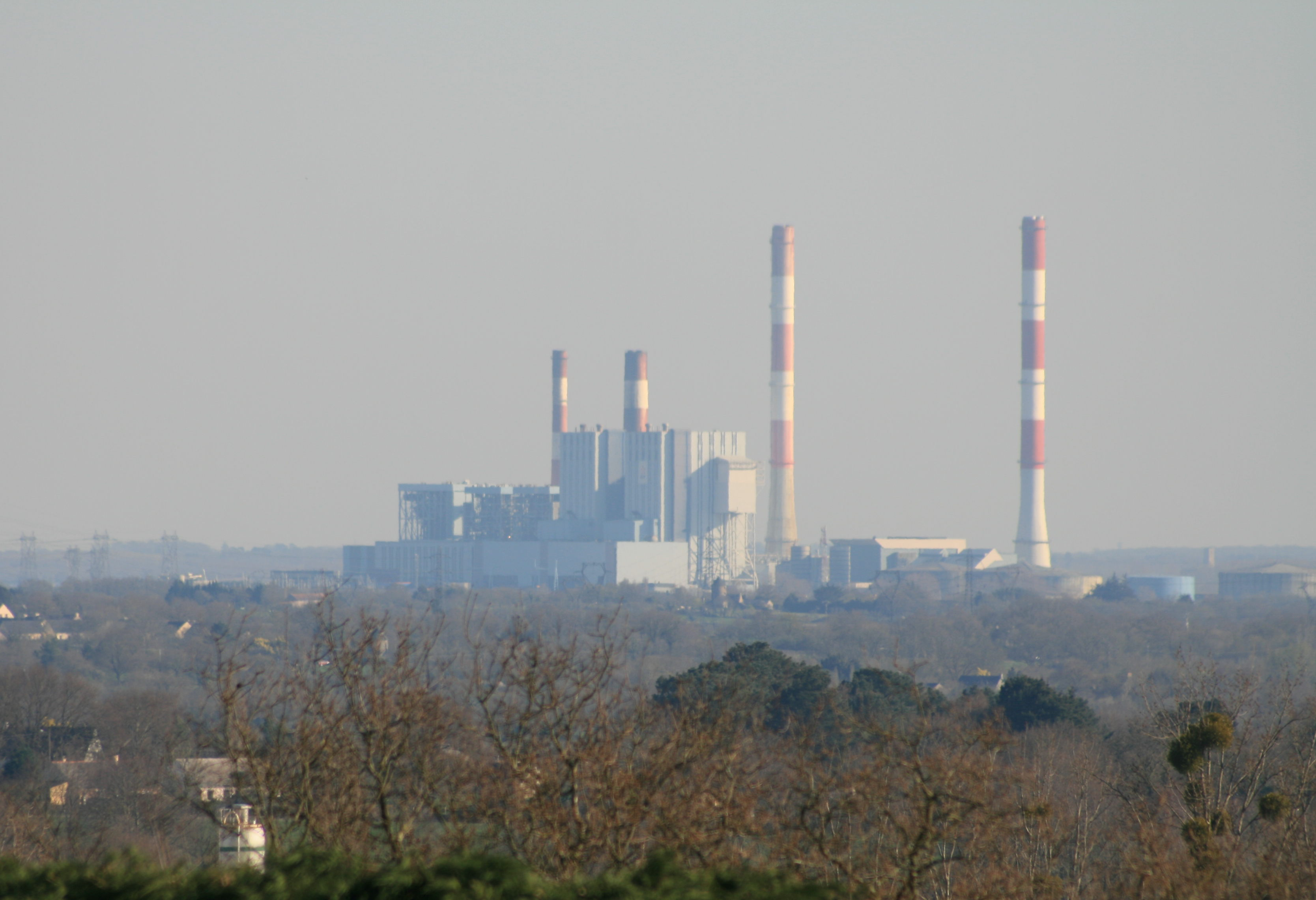 Power Plant of Cordemais, Loire-Atlantique, France (coal and fuel powered)